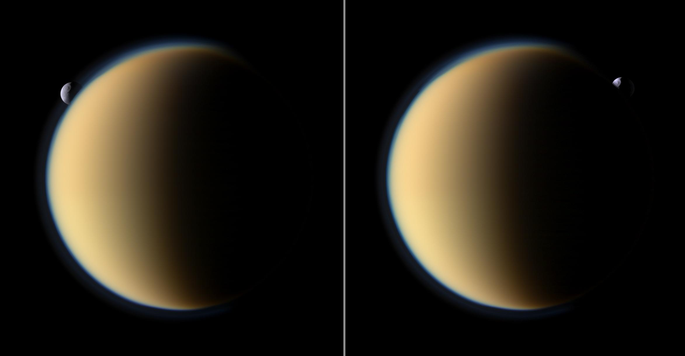 The robotic Cassini spacecraft orbiting Saturn captured the heavily cratered Tethys slipping behind Saturn's atmosphere-shrouded Titan late last year. The largest crater on Tethys, Odysseus, is easily visible on the distant moon. Titan shows not only its thick and opaque orange lower atmosphere, but also an unusual upper layer of blue-tinted haze. Tethys, at about 2 million kilometres distant, was twice as far from Cassini as was Titan when the above image was taken.